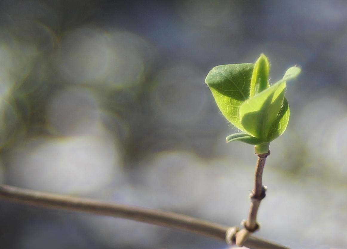 European Honeysuckle (Lonicera periclymenum) in Mårtaskogen, Sweden, February 2012.